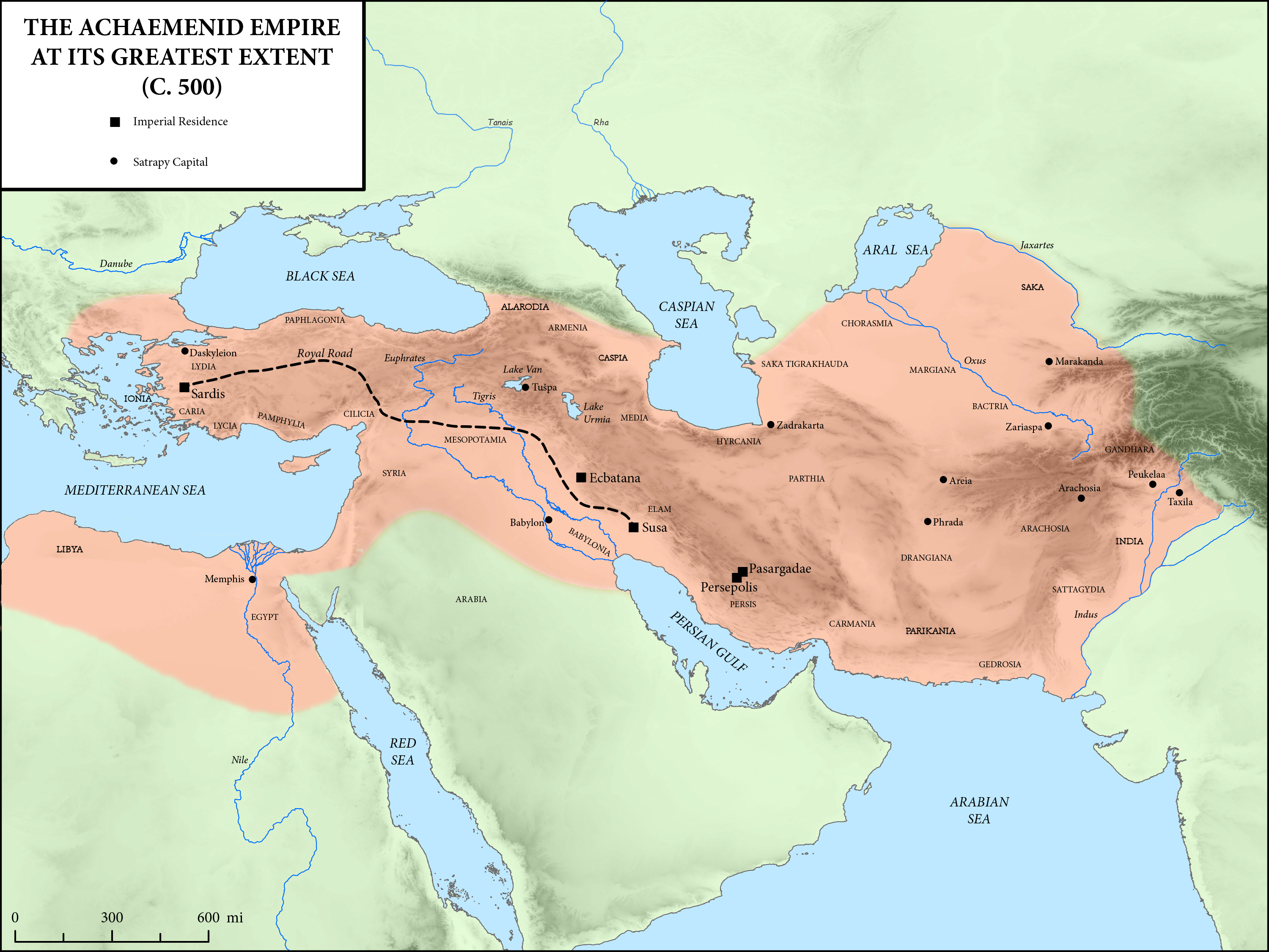 Achaemenid Empire at its greatest extent according to Oxford Atlas of World History 2002. Sources: Visible online: 2002 Oxford Atlas of World History p.42 (West portion of the Achaemenid Empire) and p.43 (East portion of the Achaemenid Empire).(in English) (2002) Atlas of World History, Oxford University Press, pp. 42-43 ISBN: 9780195219210. Visible online: Philip's Atlas of World History (1999) The Times Atlas of World History, p.79 (1989)(in English) (1989) The Times Atlas of World History, Times Books, p. 79 ISBN: 9780723003041.